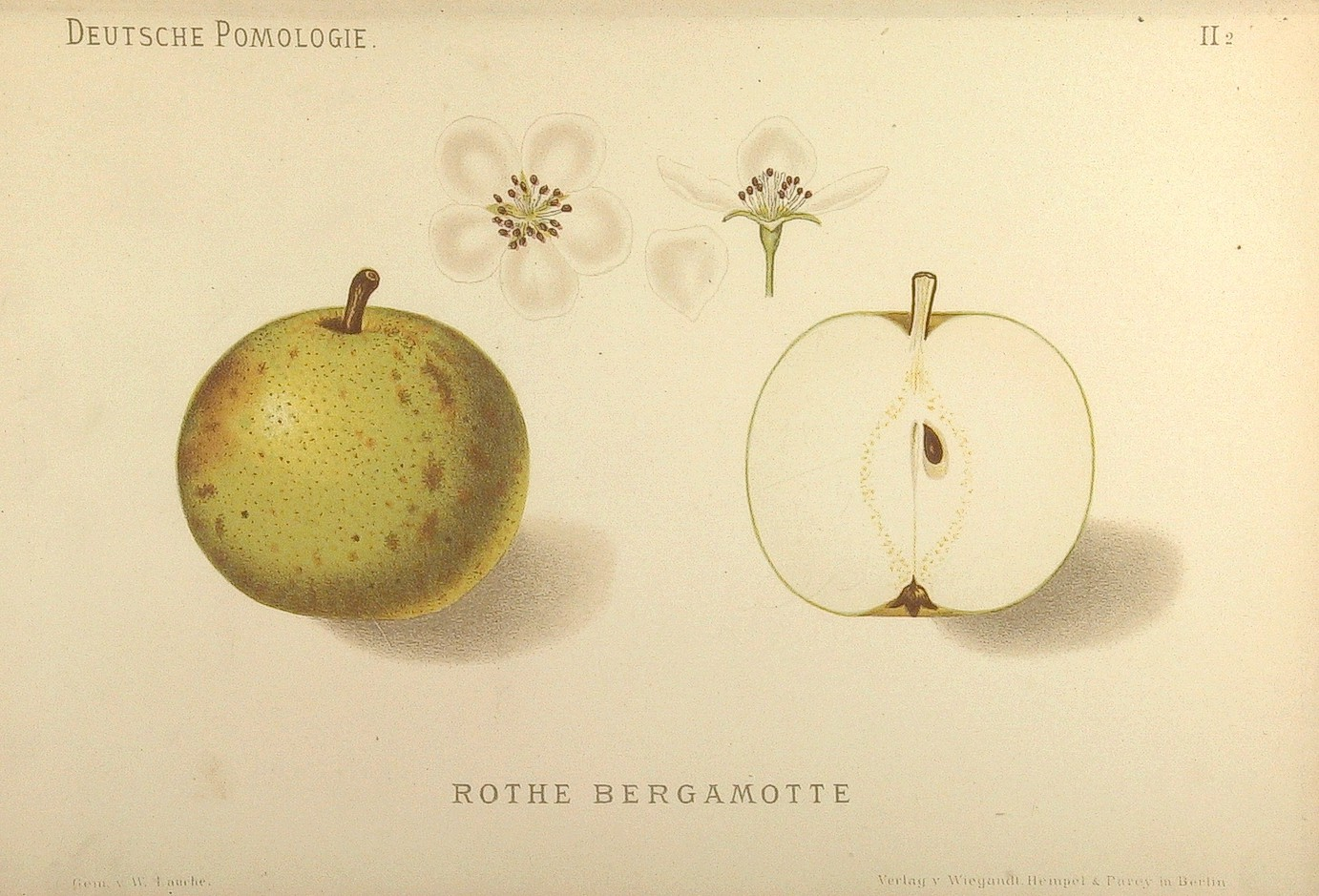 Page 2 from Deutsche Pomologie — Birnen, by Wilhelm Lauche, 1882. Published by Deutsche Pomologen-Vereins (German Pomological Society). Part of a series from the same book. The others can be found in Category:Deutsche Pomologie - Birnen Depicted pear cultivar: Rothe Bergamotte